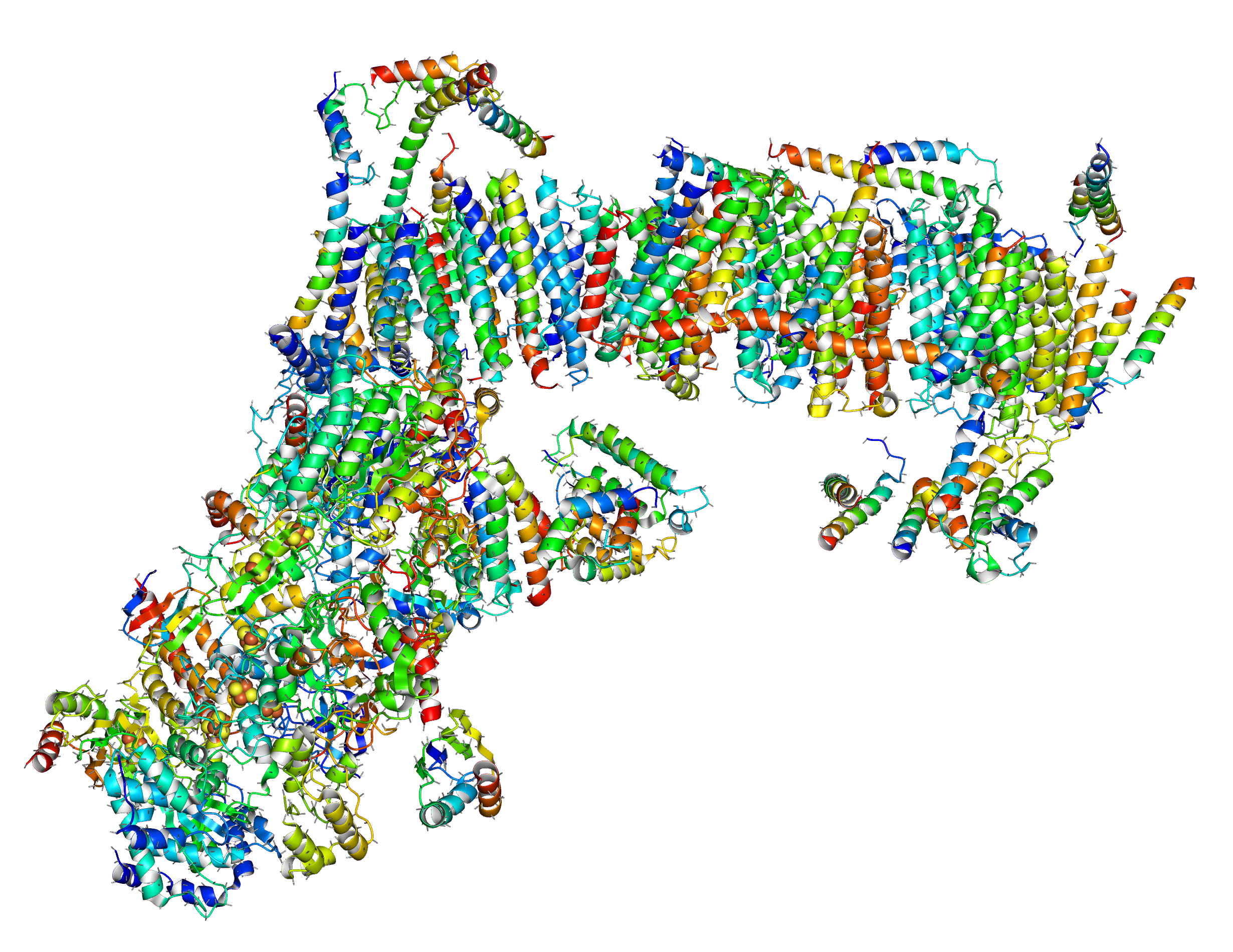 Electron cryo-microscopy of bovine Complex I, PDB 4UQ8. Small areas of the beta-sheets dehydrogenase domain are displayed as a simple chain.